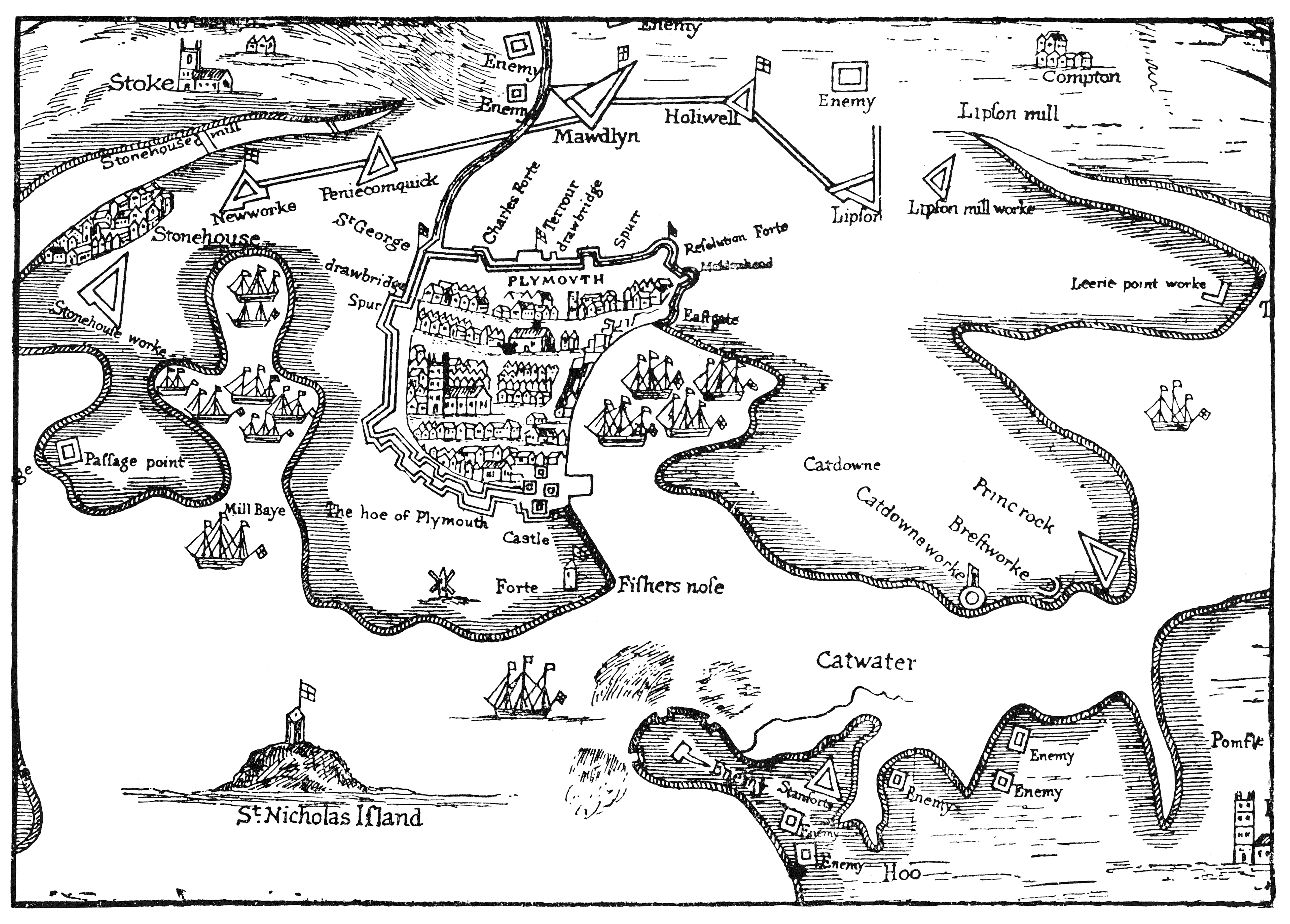 Part of "A True Mapp and Description of the Towne of Plymouth and the Fortifications thereof at the last siege, A. 1643"